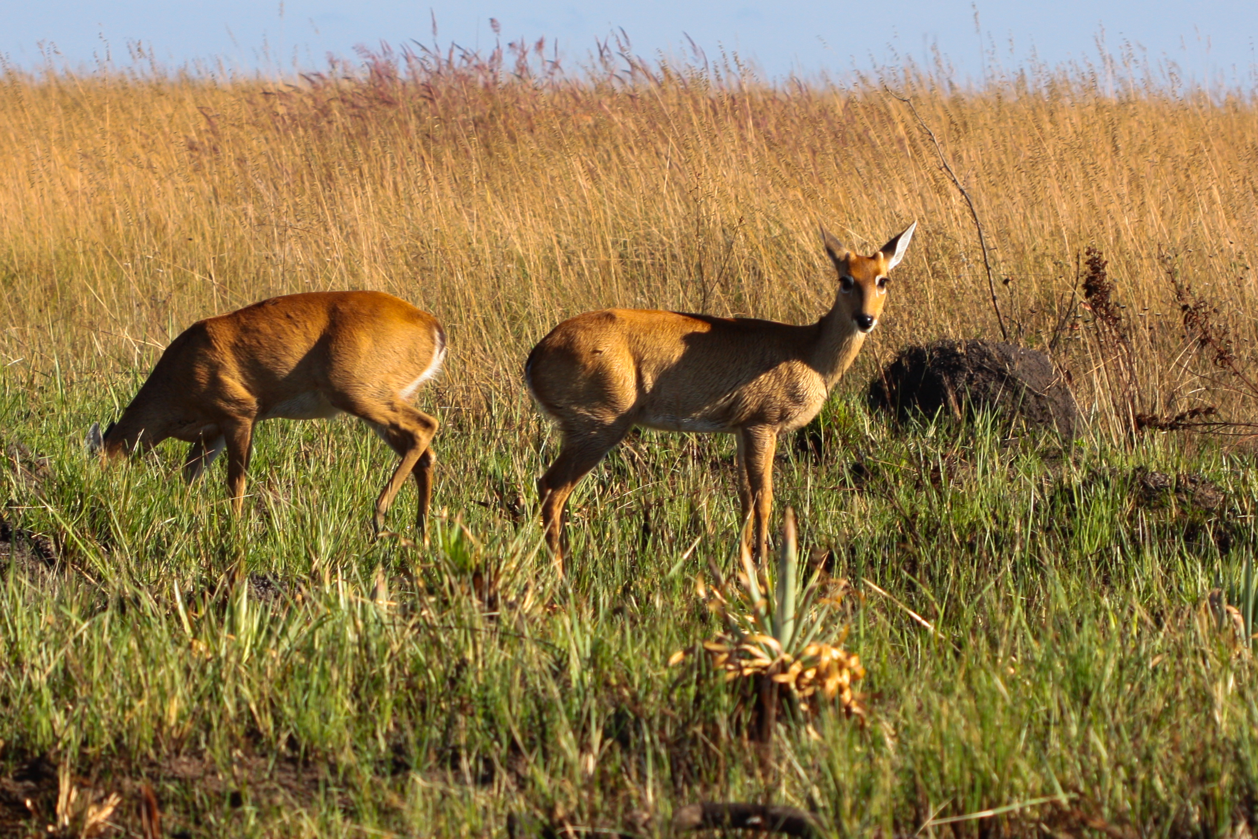 Pampas deers, Ozotoceros bezoarticus, at the Serra da Canastra National Park, Minas Gerais state, Brazil